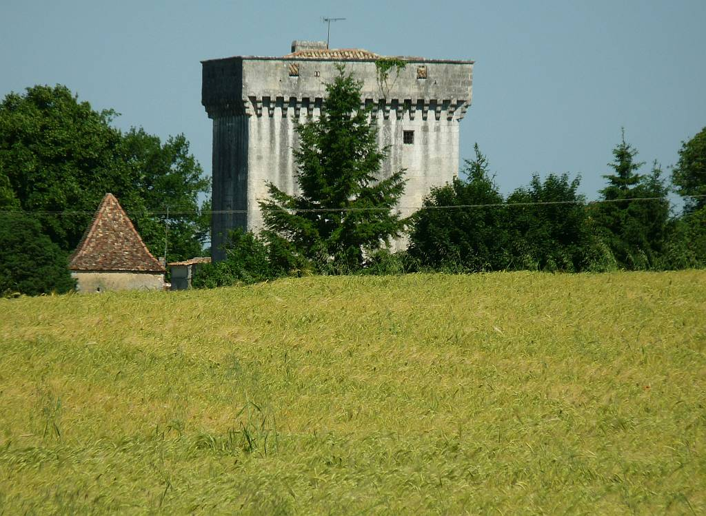 Tower of Breuil, near Dignac, Charente, France